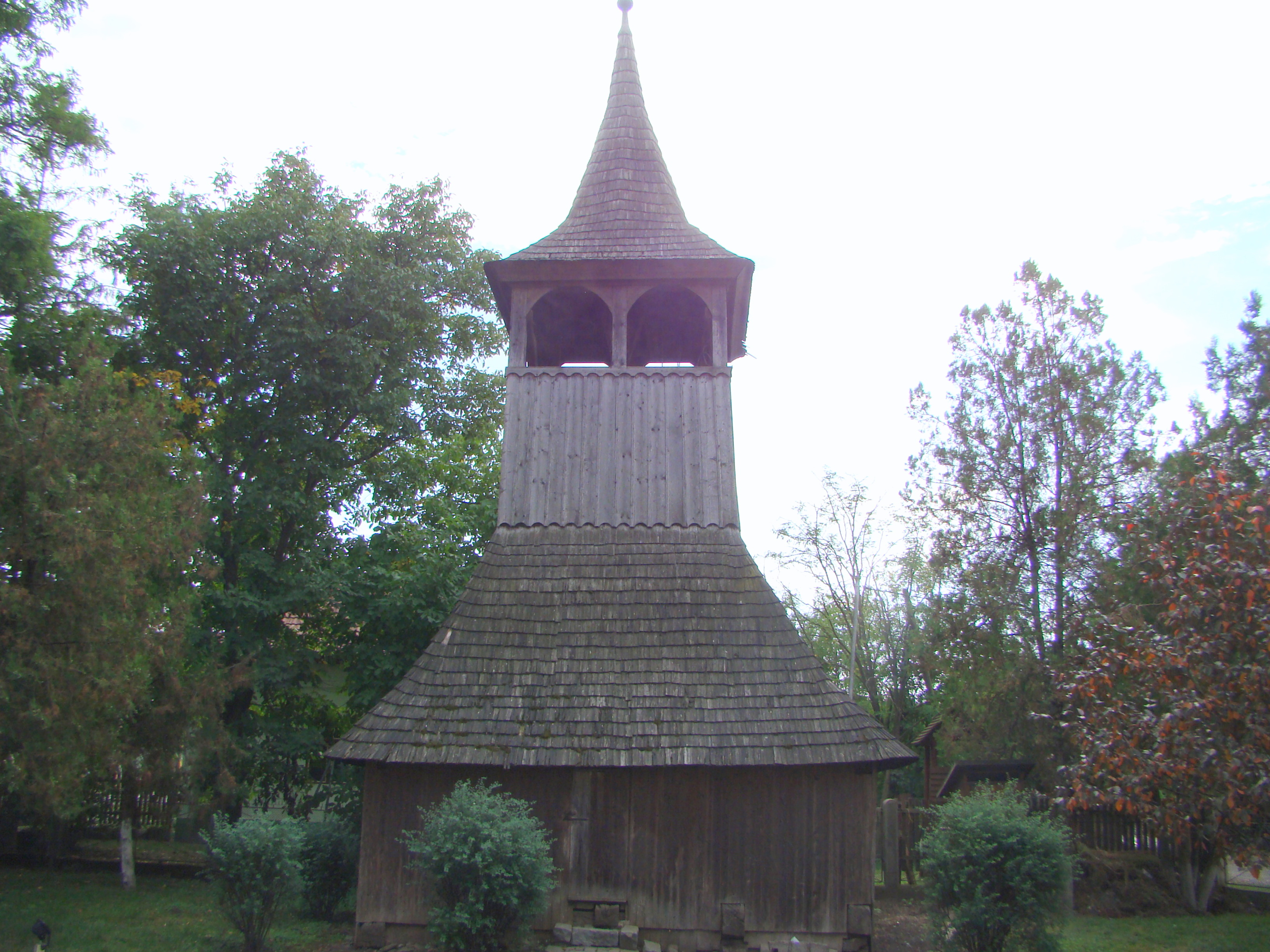 Bell tower of the reformed church in Periș, Mureş county, Romania 02